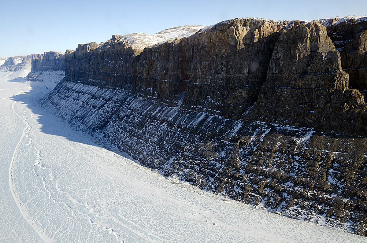 Unnamed Glacial Canyon, Northern Greenland, May 3, 2012